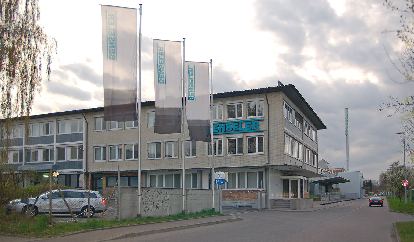 Benseler